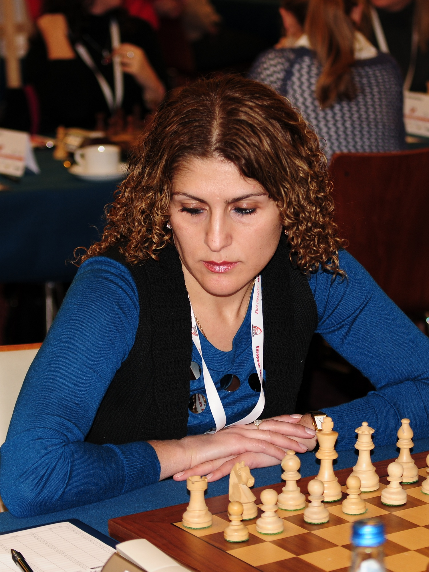 IM Tea Lanchava, European Chess Team Championship Warsaw 2013